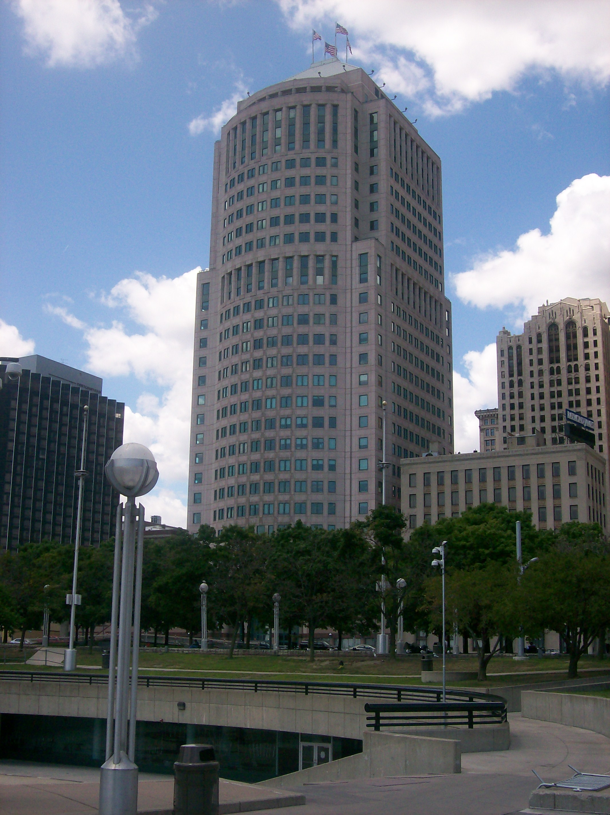 Kyle Lang, 2007, free to all